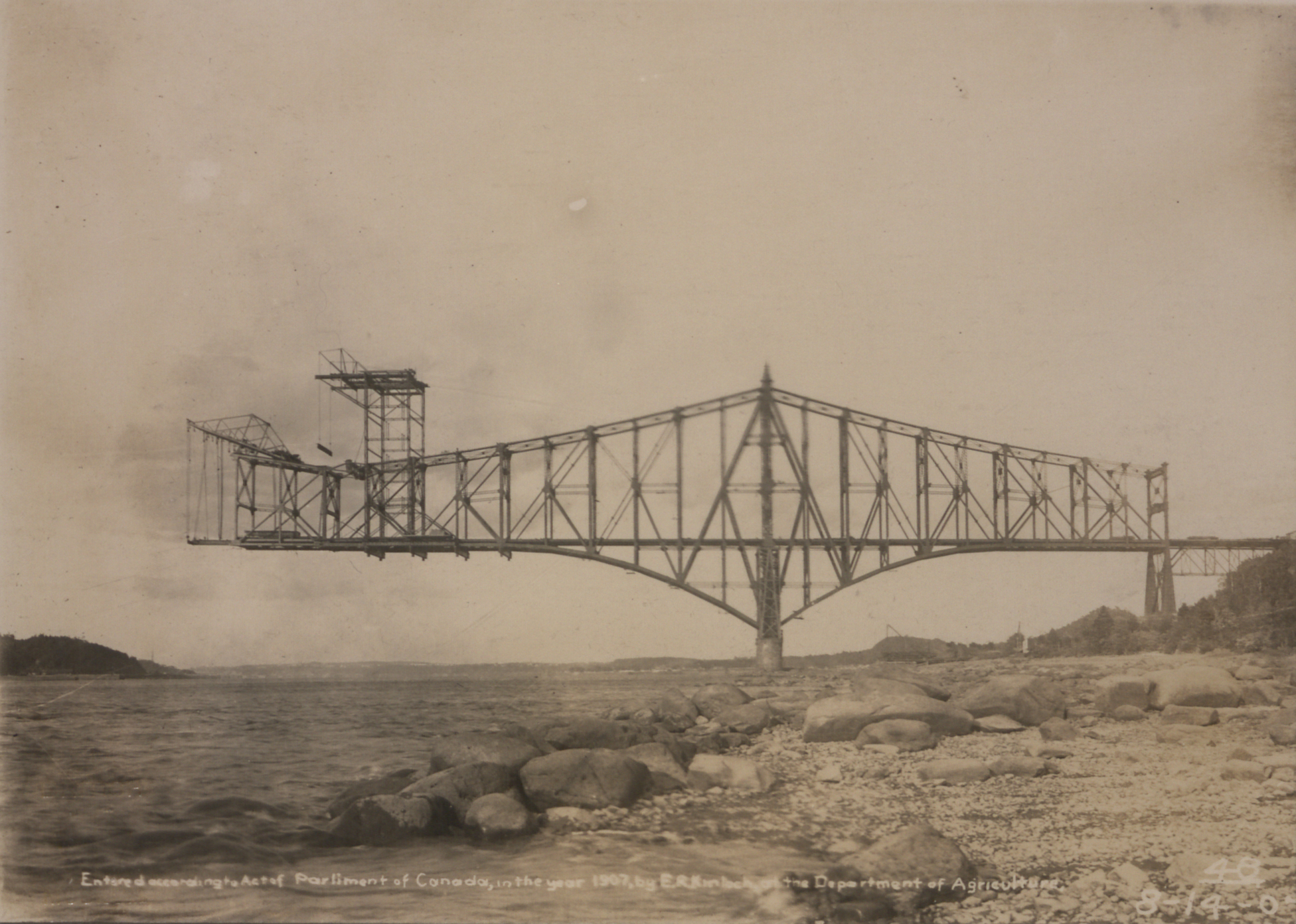 Original caption: "Quebec bridge view. No. 48."